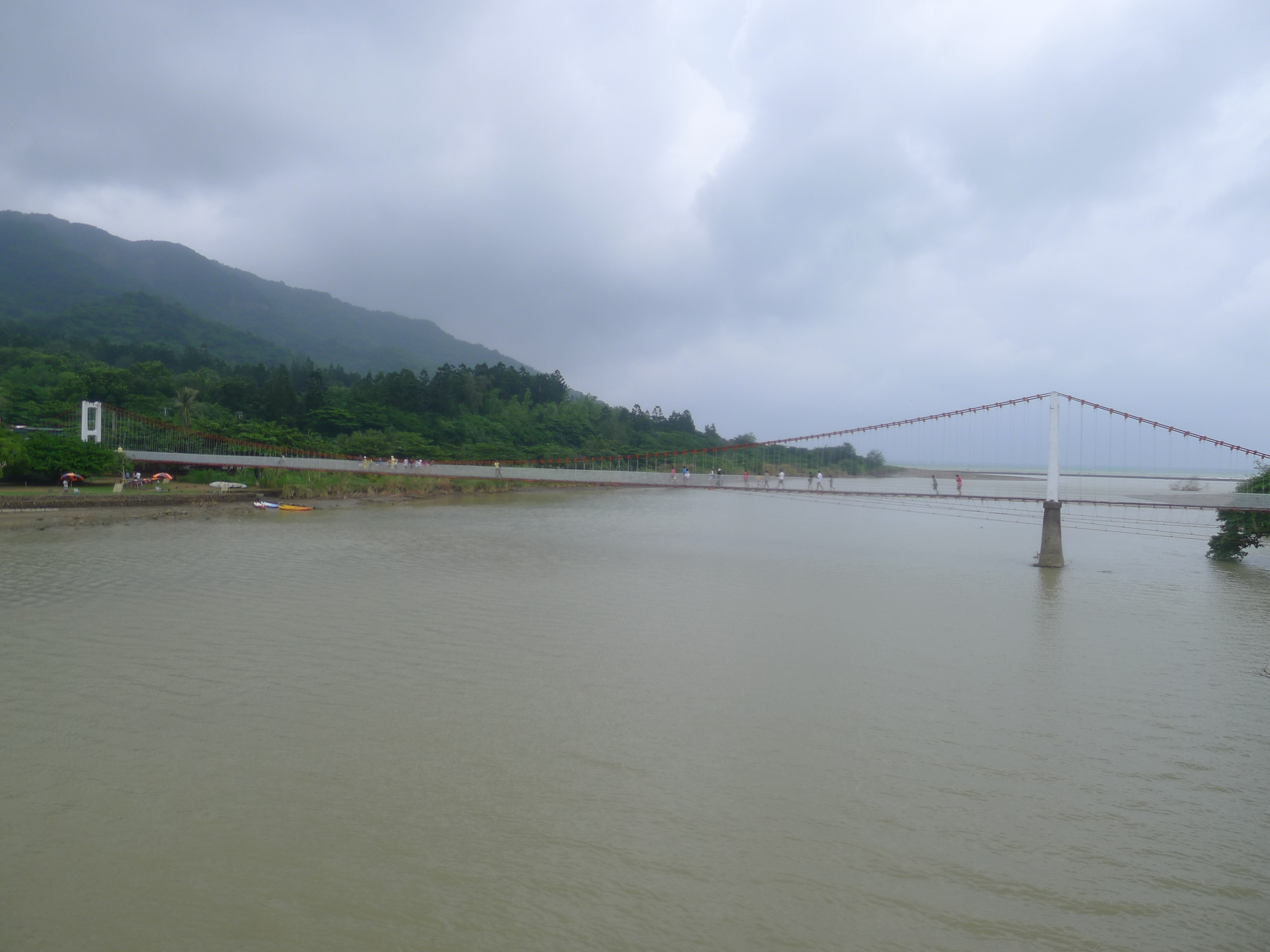 The suspension footbridge across the Gangkou River in Gangkou Village, Manzhou Township.